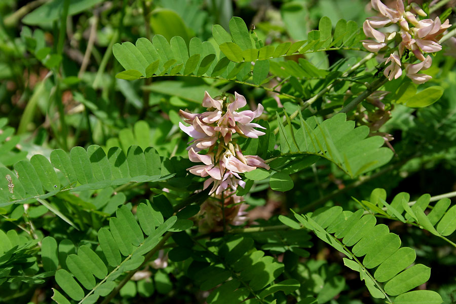 Abrus precatorius - Crab Eyed Creeper, Jequirity, gunj, 'John Crow' Bead, Precatory bean, Indian Licorice or Saga Tree, Coral bead vine, Rosary pea • Hindi: रत्ती Ratti, गुंची Gunchi • Sanskrit: गुंजा Gunjaa • Kannada: गुलगुंजी Gulugunji • Bengali: गुंच Gunch • Gujarati: Chanothi • Tamil: குன்றிமணி kundri mani • Marathi: गुंज Gunja- in Hyderabad, India.